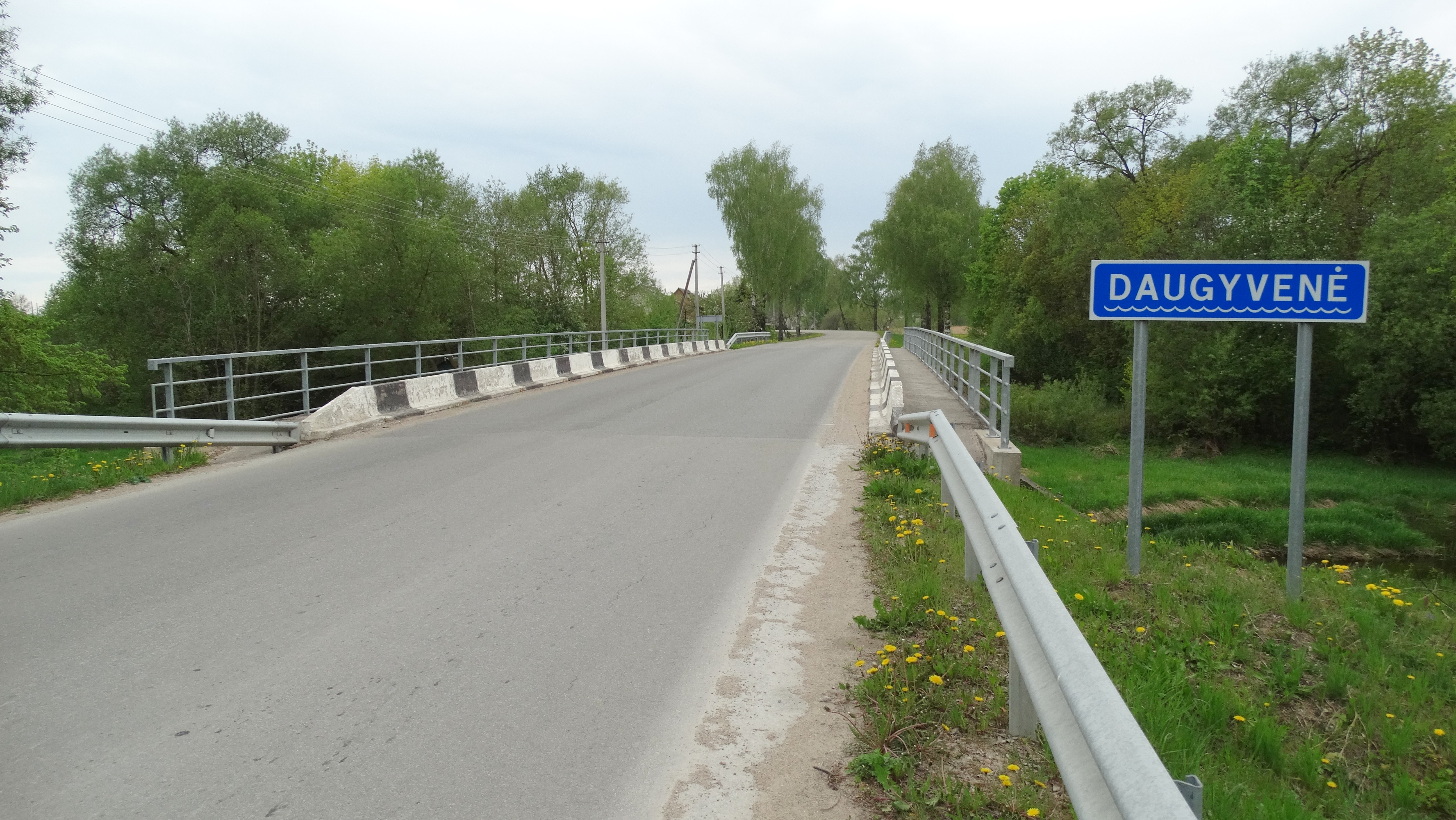 Bridge on Daugyvenė River, Rimšoniai, Pakruojis district, Lithuania